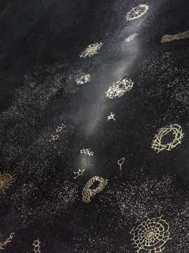 Michele Oka Doner Miami International Airport Photo: Nick Merrick © Hedrich Blessing, 2008